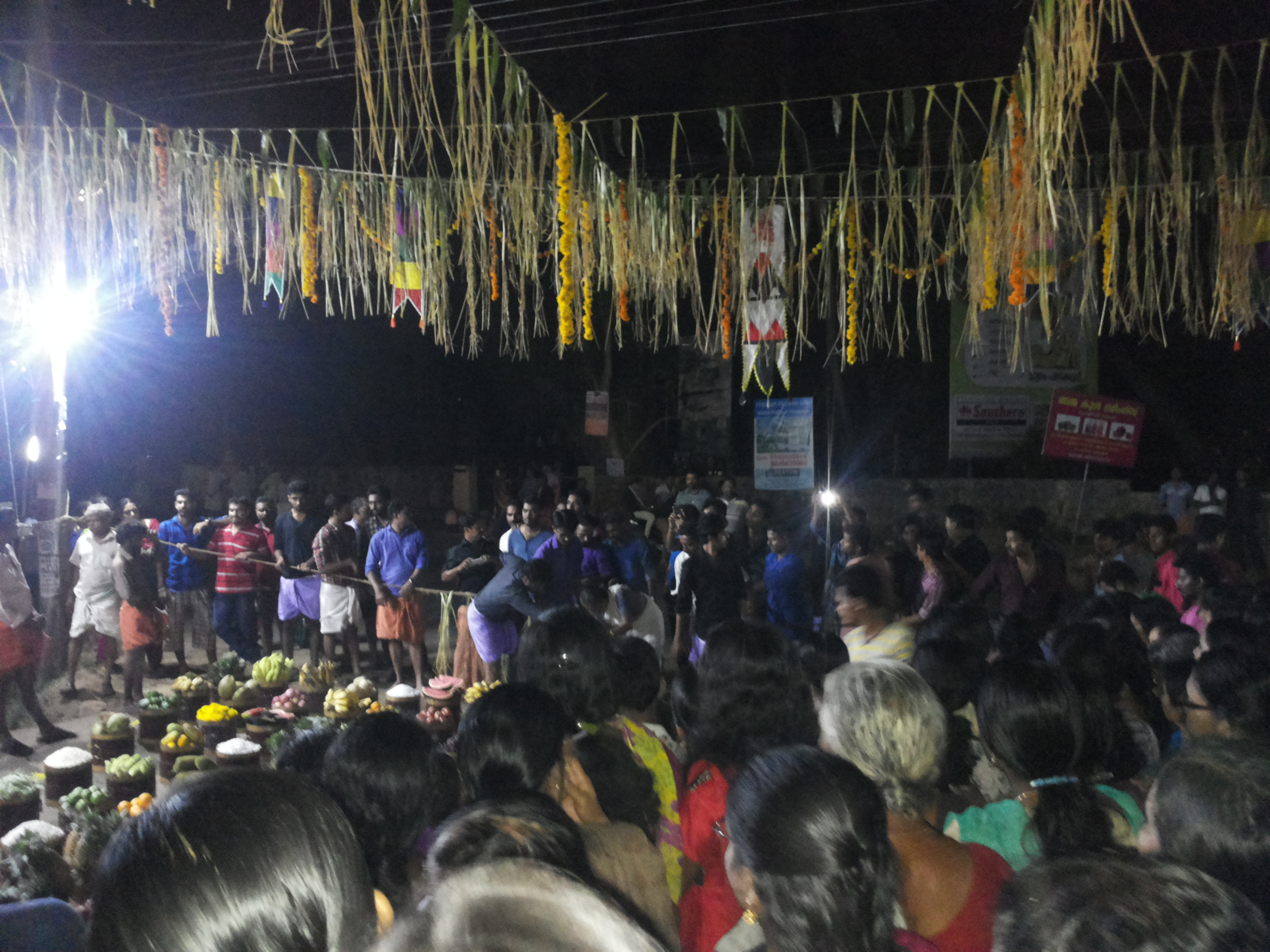 Mrs. Girija light up the temple festival(Pooram) of Kolazhy Desam